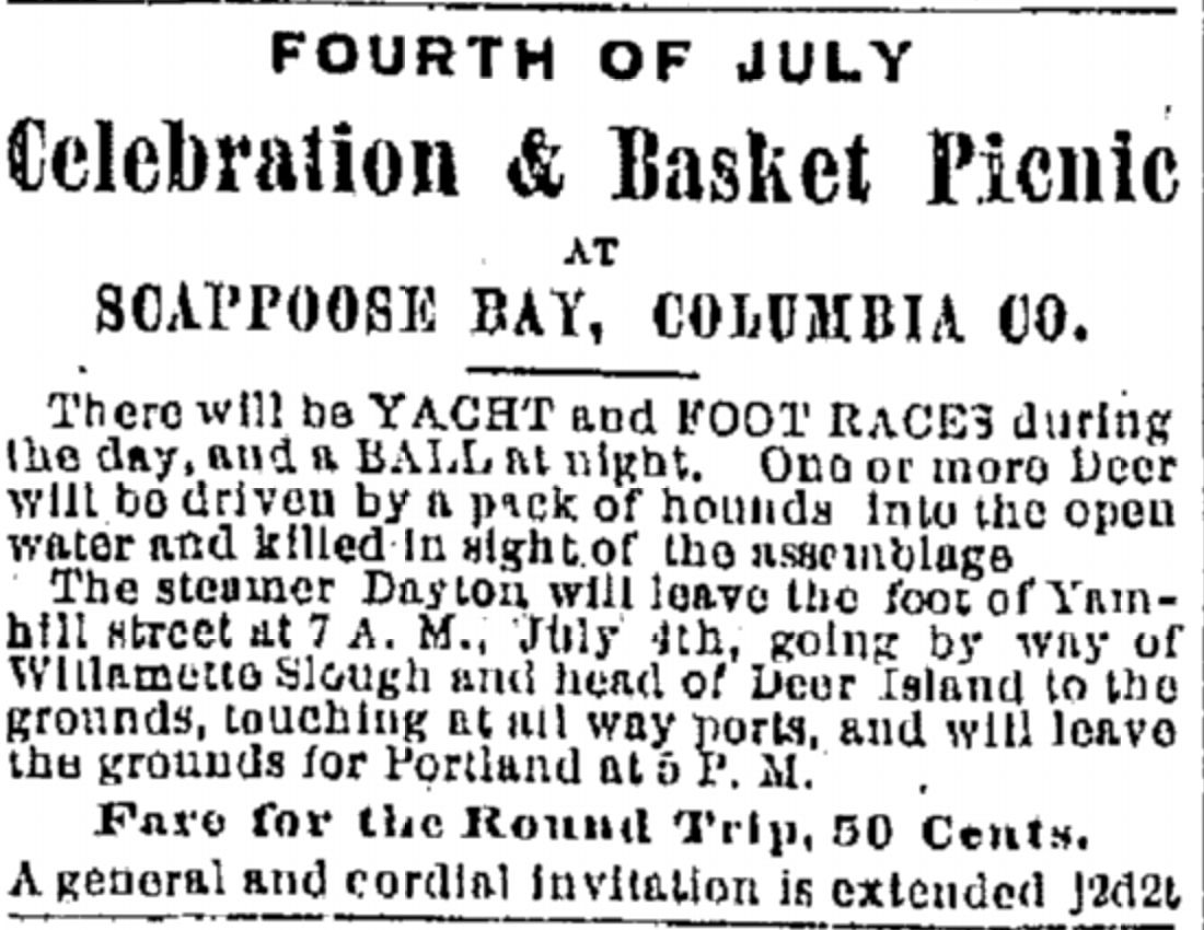 Dayton steamboat excursion advertisement.